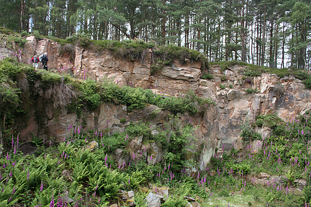 Cuttieshillock Quarry in Quarrelwood near Elgin, Scotland, notable locality of reptile fossils